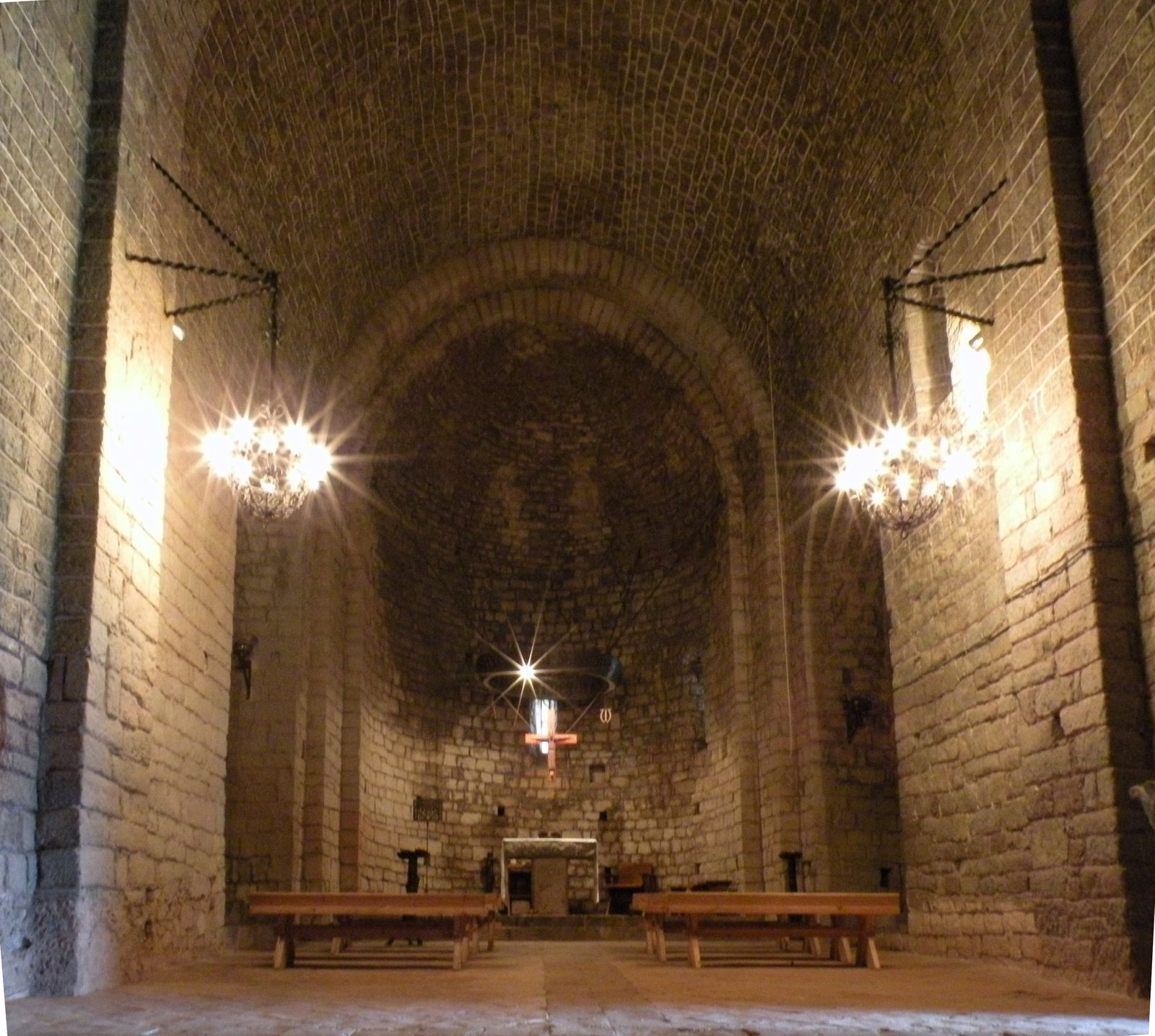 Interior of Sant Pere de Montgrony